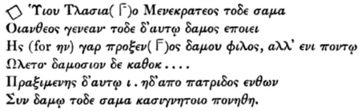 Ancient inscription on Menecratis's tomb